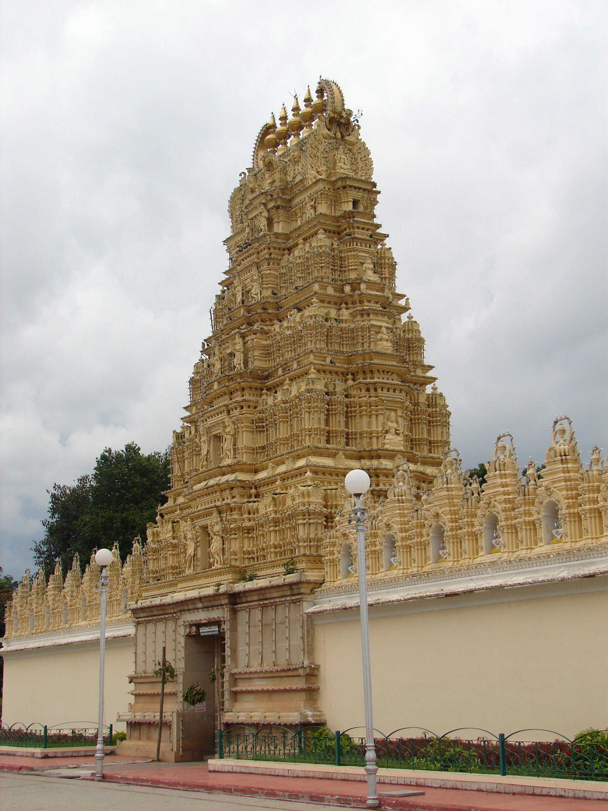 This photograph was taken by me at the Mysore Palace in Mysore, Karnataka state, India